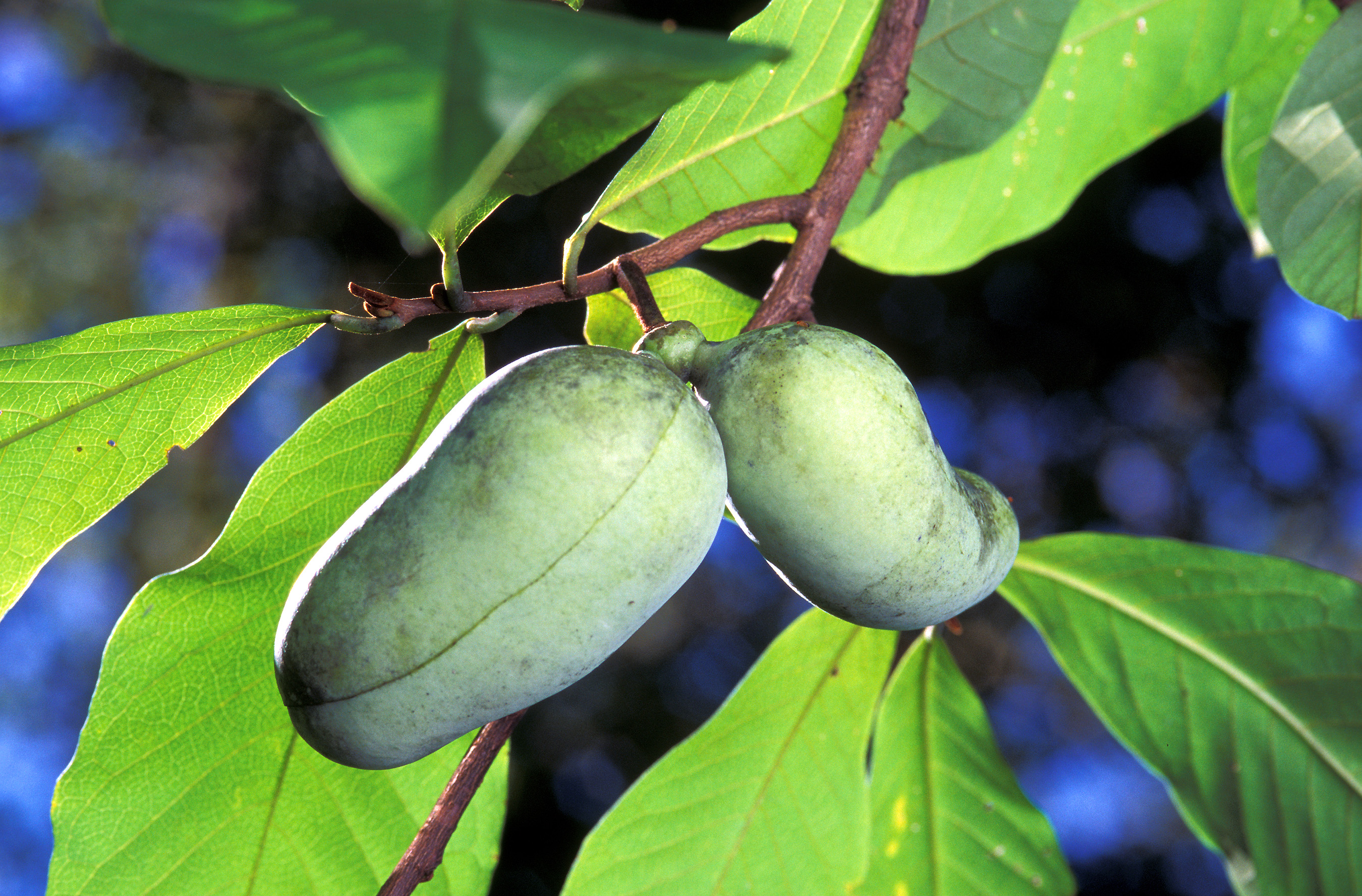 Asimina triloba —Pawpaw tree; fruit. The species yields 7–12 centimetres (2.8–4.7 in) long fruit, the largest fruit native to the United States.